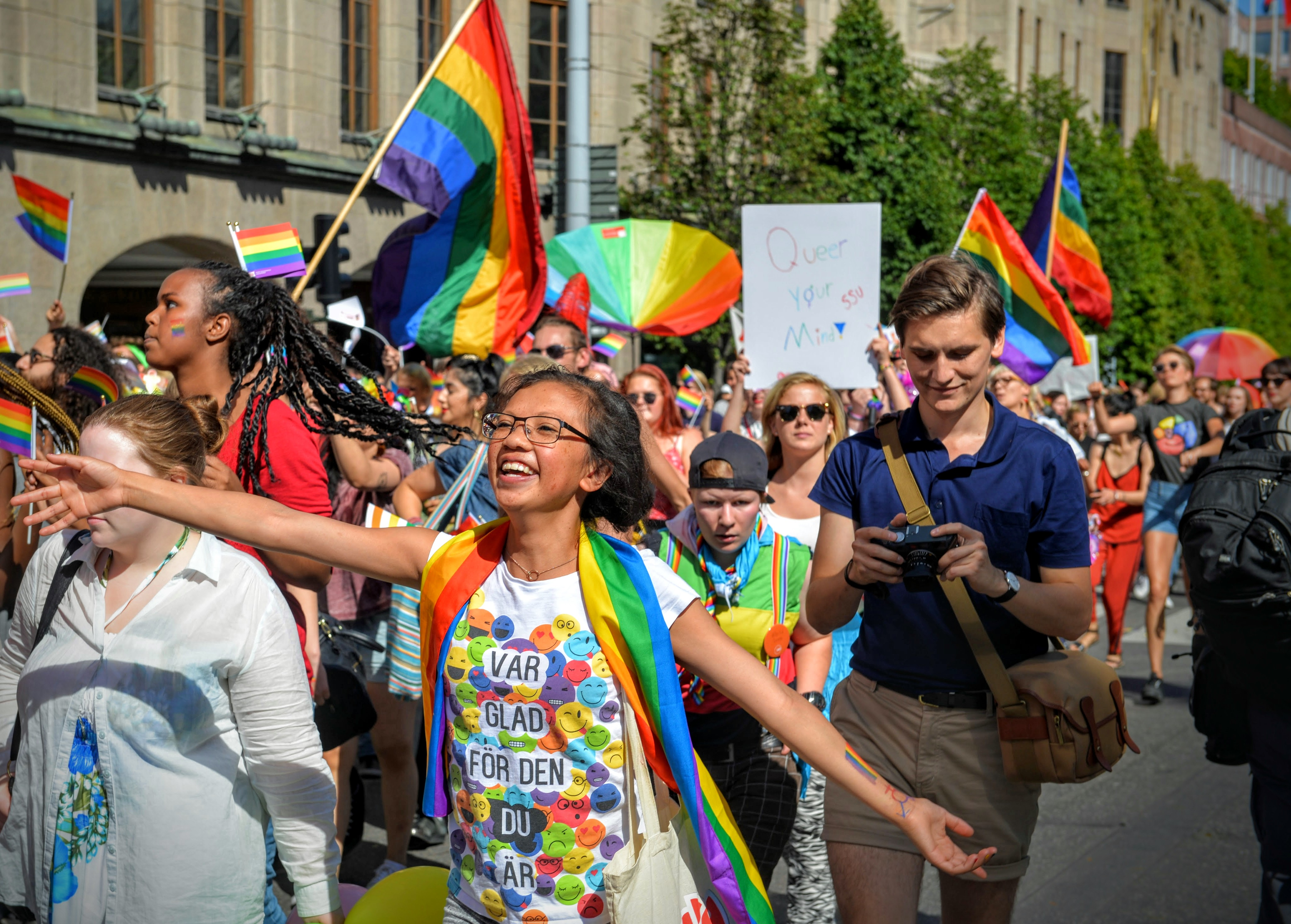 Stockholm Pride 2015 Parade